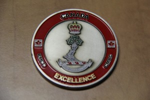 Commandant coin of excellence Royal Military College of Canada, Kingston, Ontario, Canada